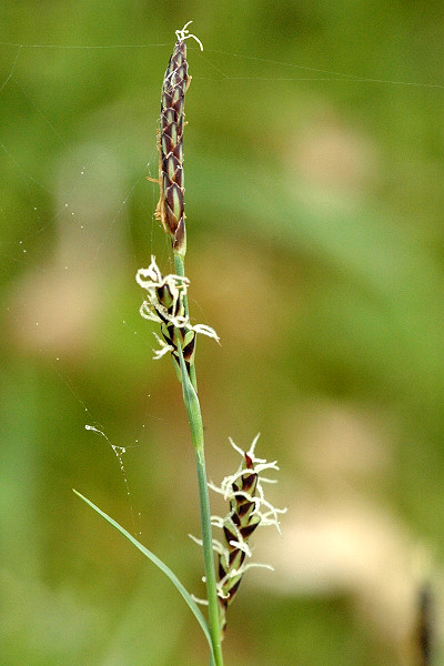 Carex panicea from Commanster, Belgian High Ardennes .